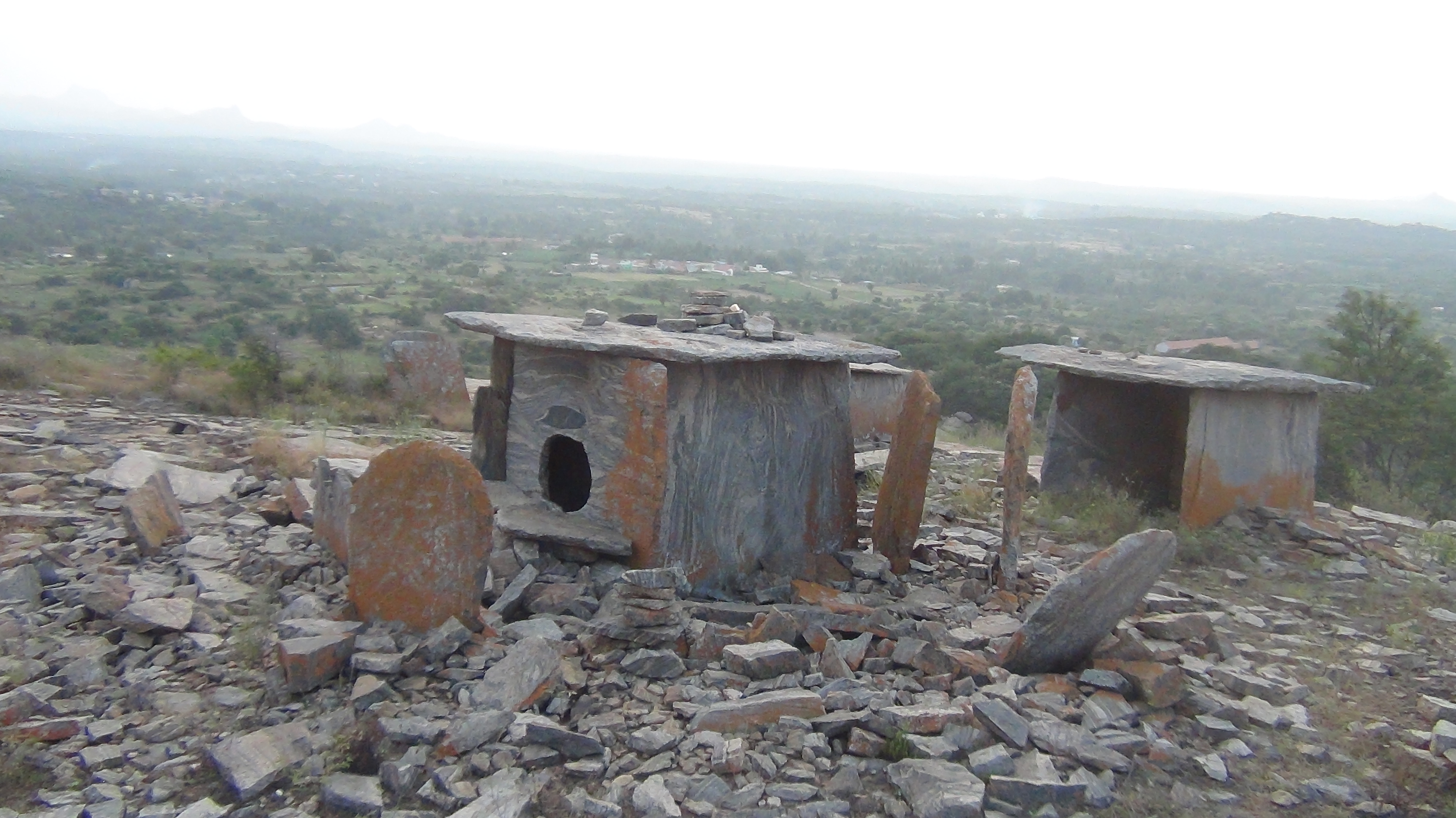 Megalithic dolmen with rock art in Mallachandram Krishnagiri-Tamilnadu india. It was constructed above 2500 years. Earliest Architectural form of Tamil country.